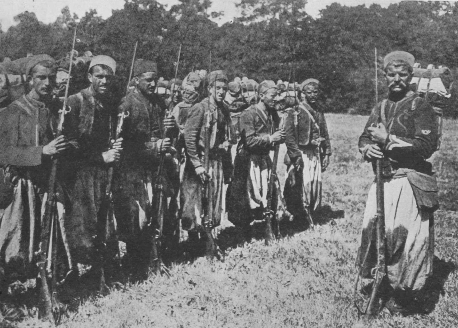 French colonial forces (Zouaves) from early World War I.